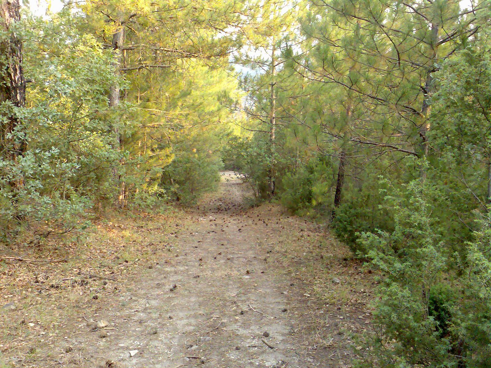 Trees in the Balkan mixed forests ecoregion, native to and growing in western Turkey.